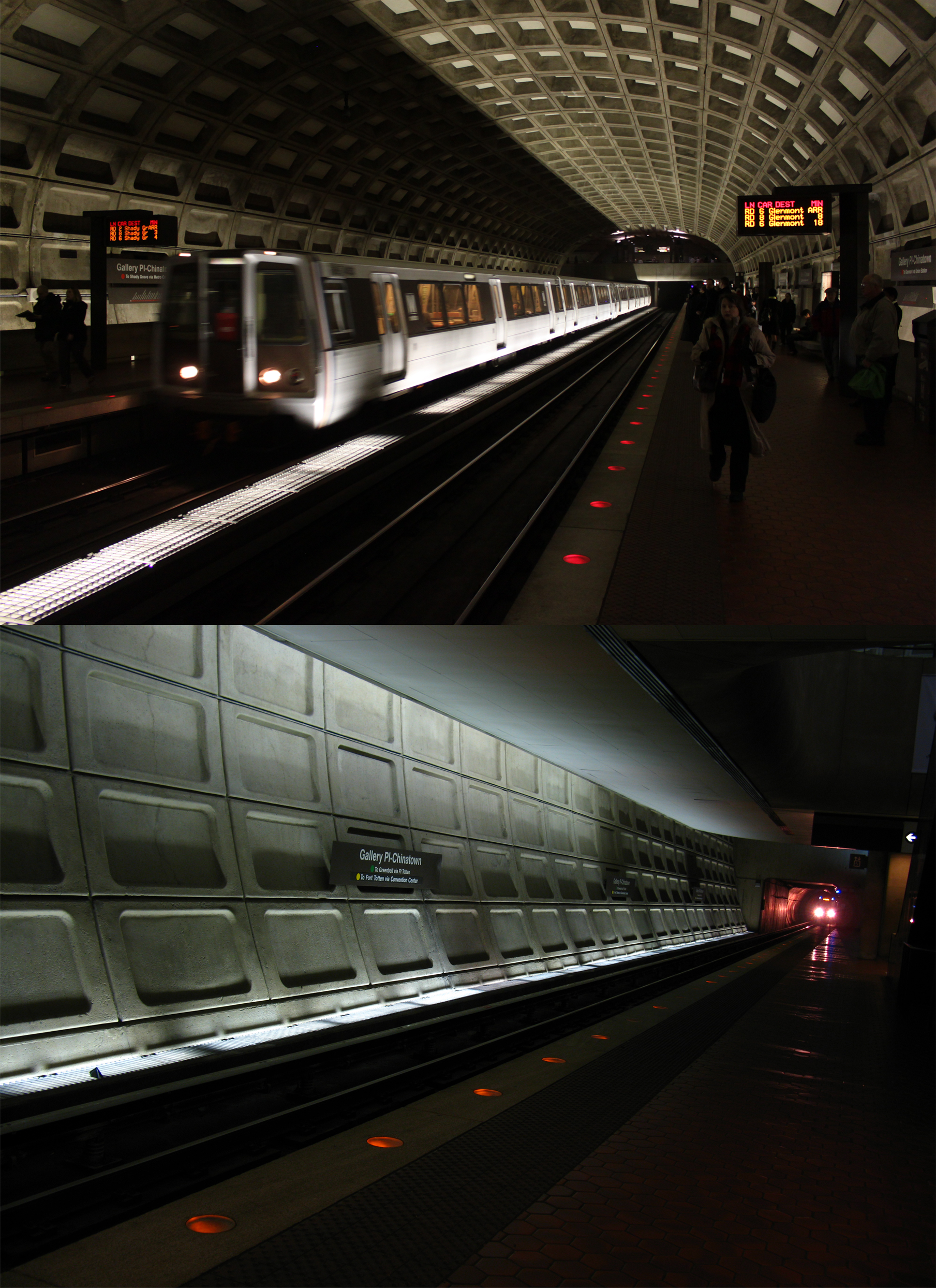 Gallery Pl-Chinatown upper level, facing west, lower level, facing south Gallery Place - Chinatown Metrorail station, Washington, D.C.